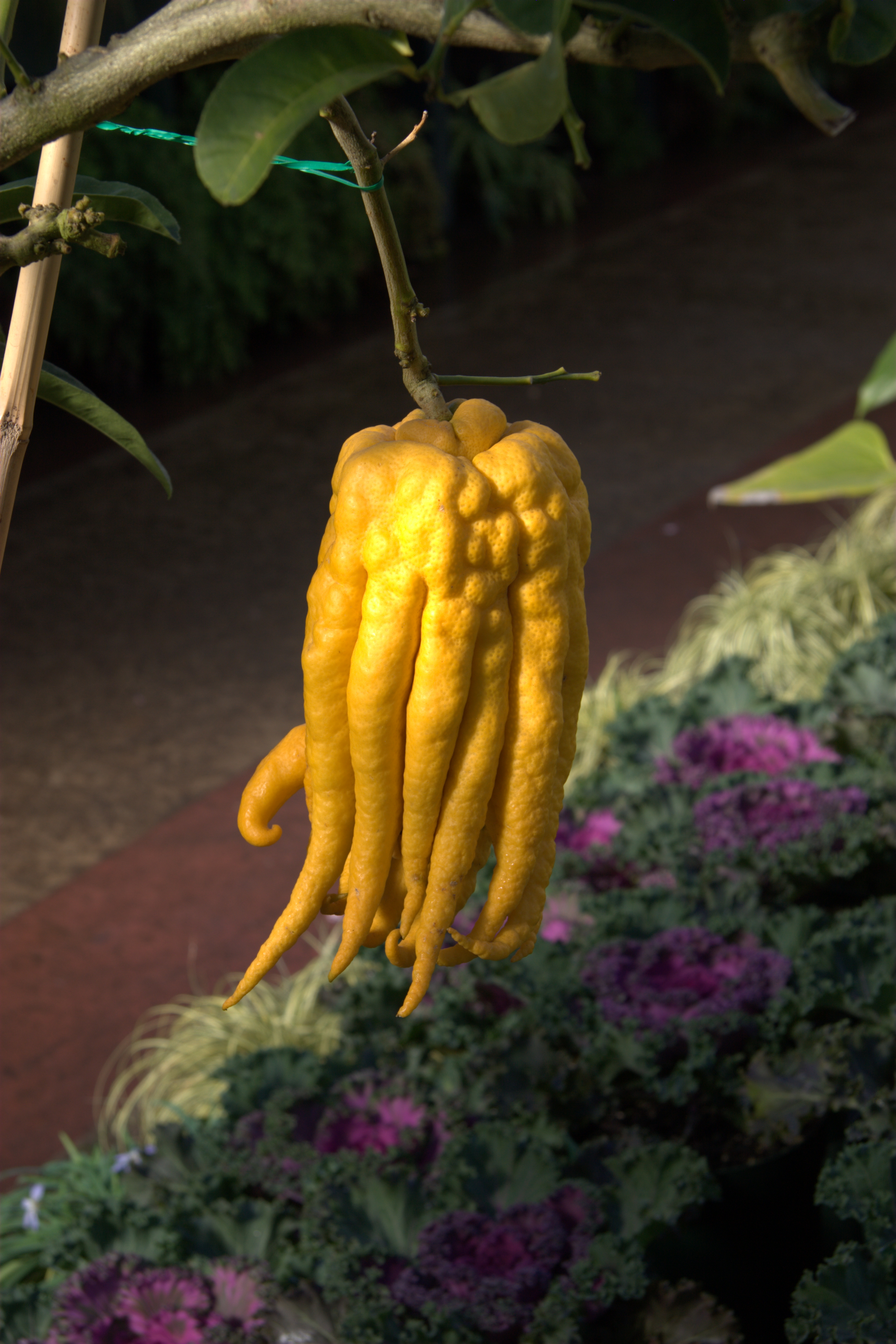 "Buddha's hand citron. One of the earliest cultivated citrus fruits."